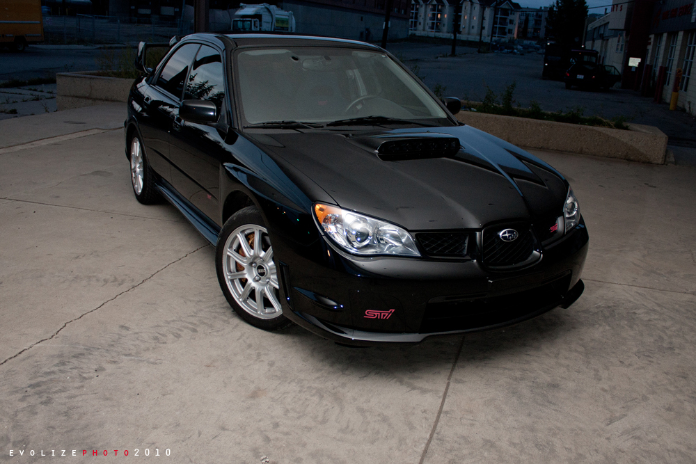 Black Car